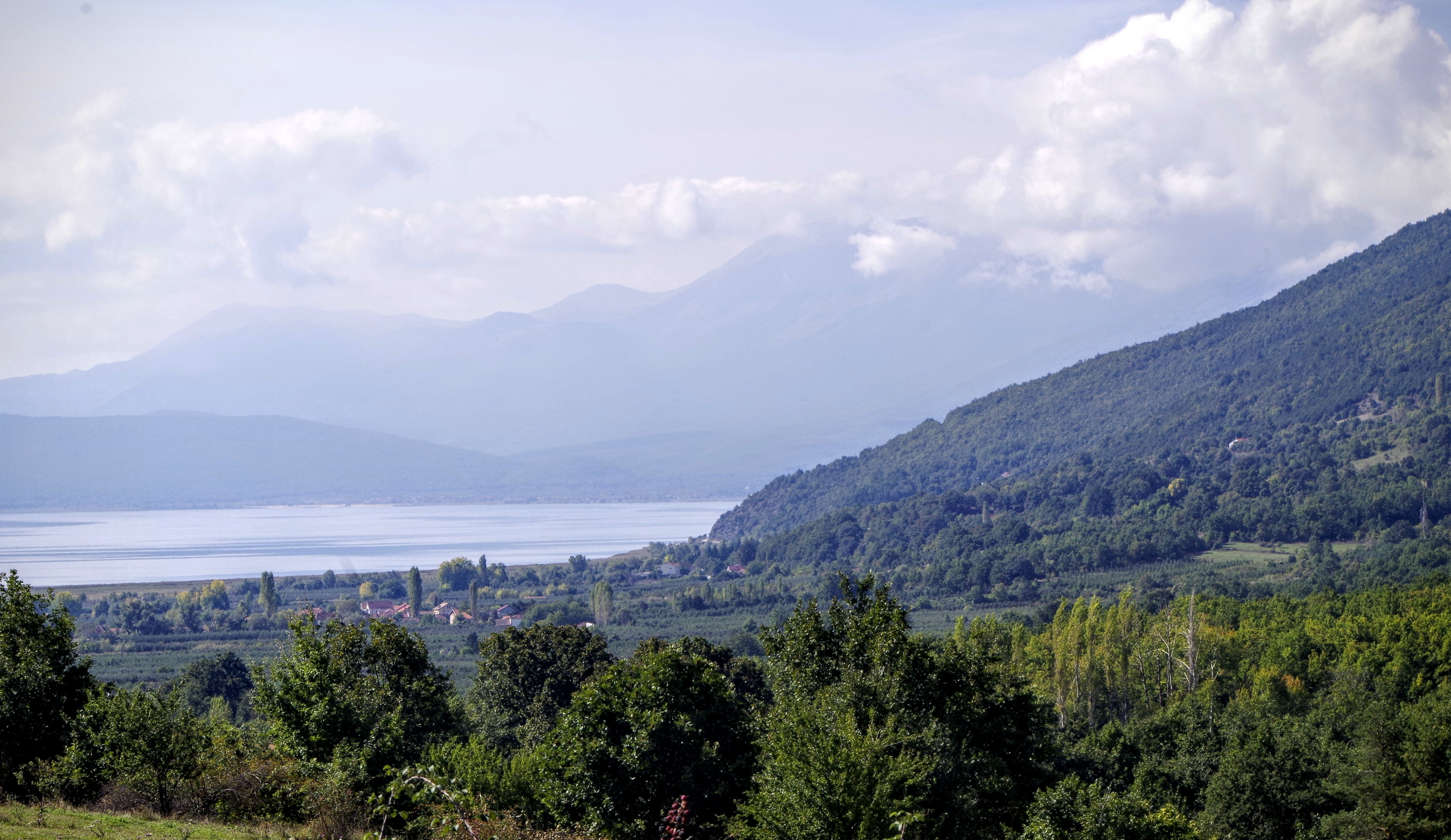 View of the village Šurlenci